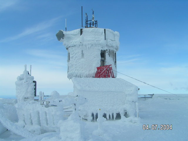 The Mount Washington Observatory's weather tower with a fresh coat of rime ice. Photo taken by Michael Davidson on April 7, 2004.